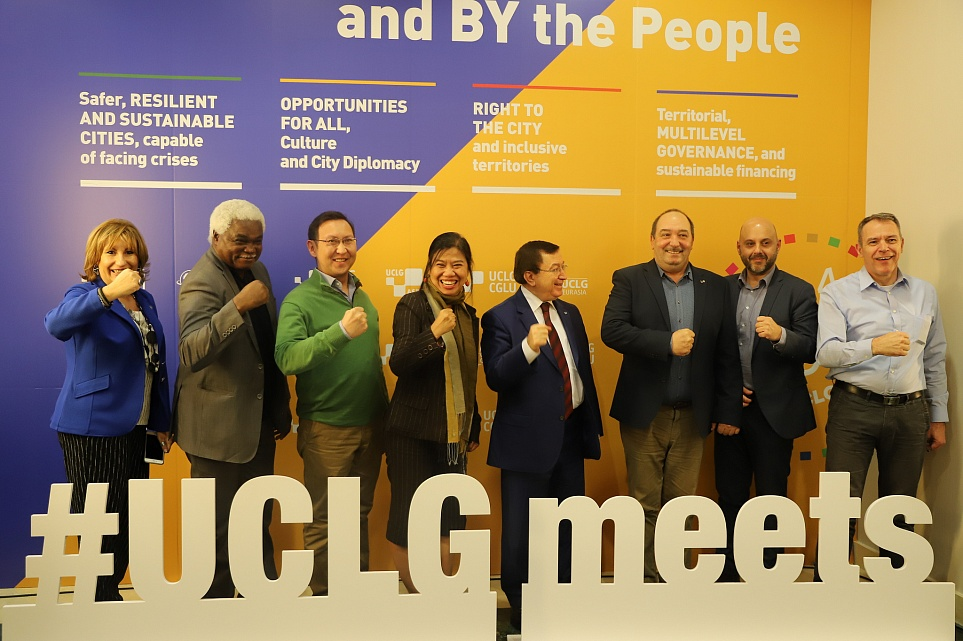 For more